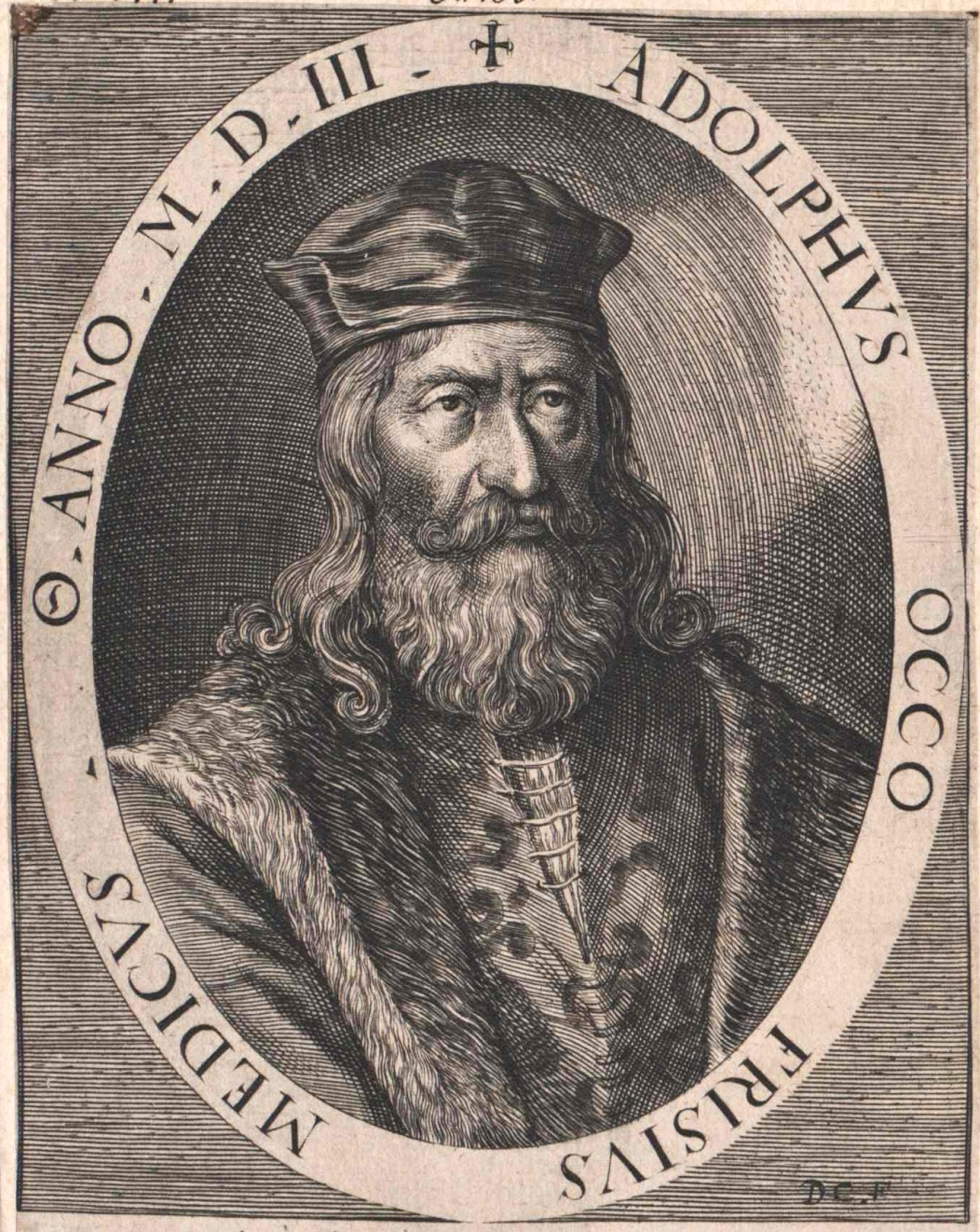 Adolph Occo I. (1447-1503), Augsburg, fürstlicher Leibarzt